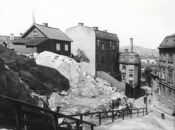 Scene from Klamparegatan, Gothenburg, Sweden. Publicerat i: Hjern, Kjell, "Ett svunnet Göteborg." Stockholm, 1964.